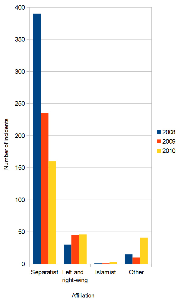 The image is a graph showing the number of terrorist attacks to occur in the EU by year and type.